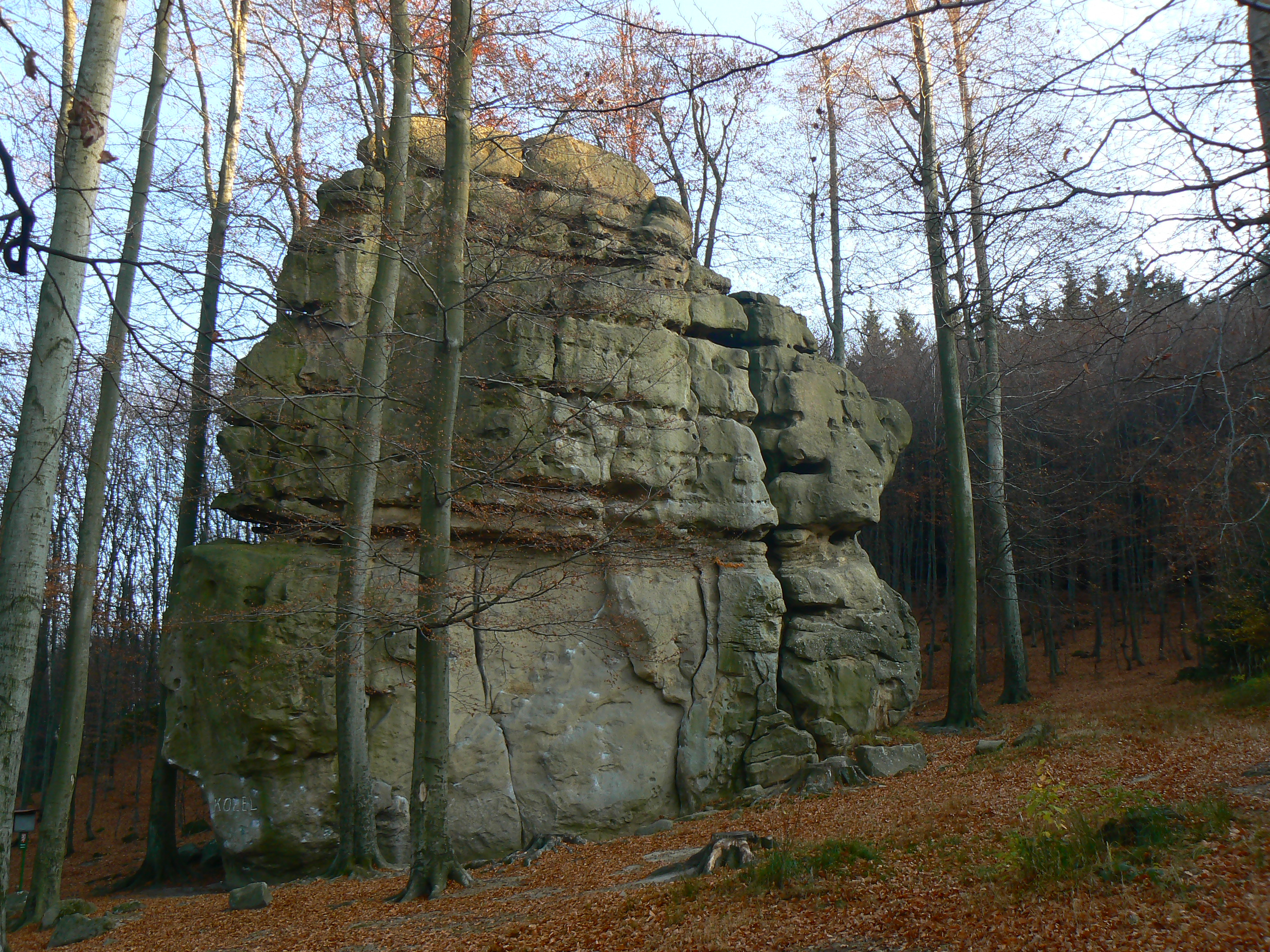 Rock formation Kozel - natural monument, Kroměříž District, Czech Republic.